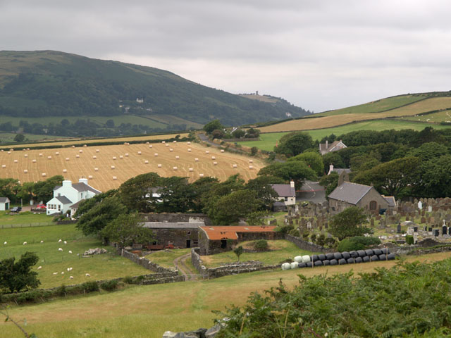 Maughold Village. Isle of Man. Photographed looking west from Maughold Head,showing the centre of the village and the Parish church. The hill "Slieu Lewaigue" is in the background.